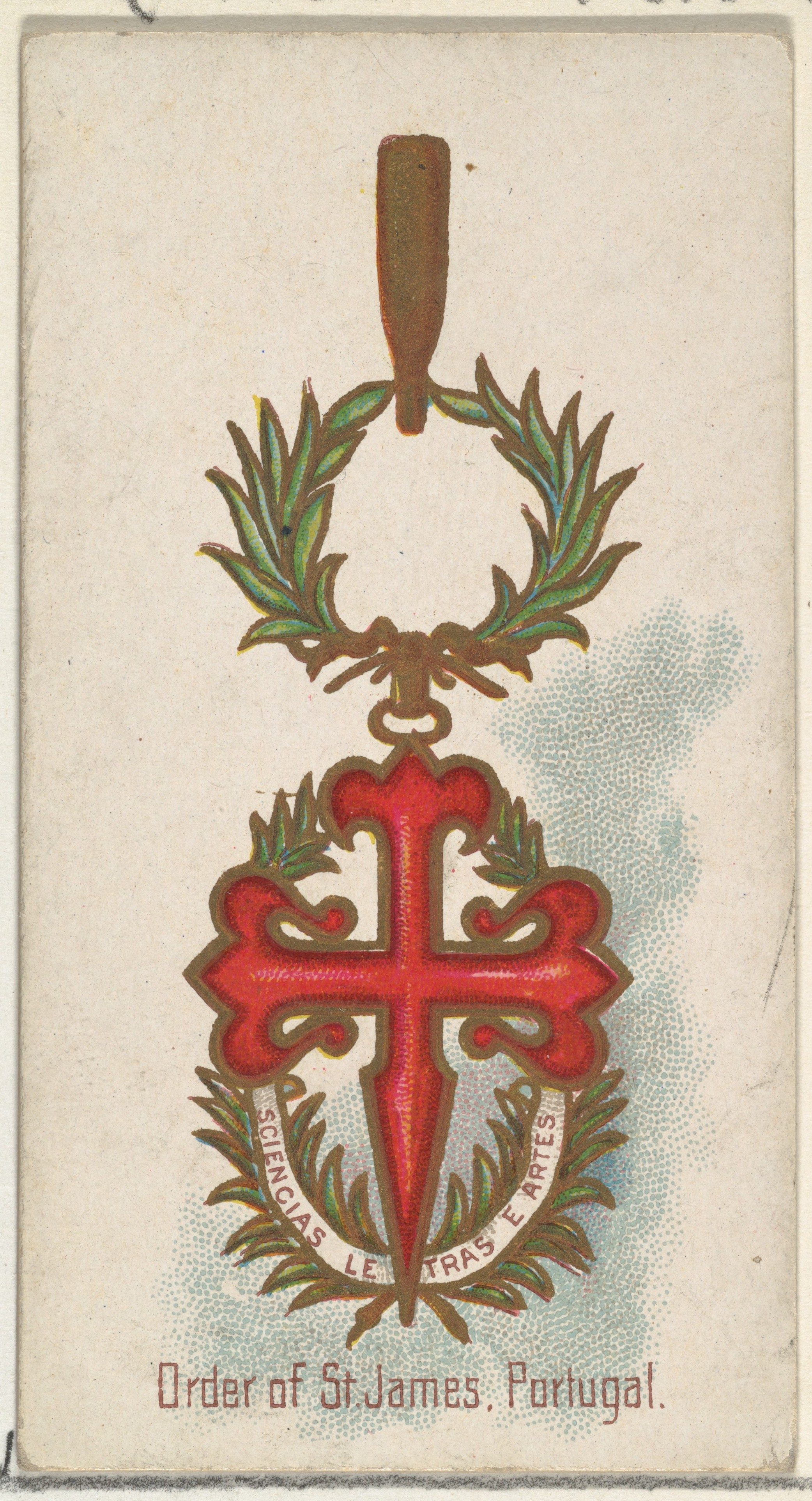 Print; Prints